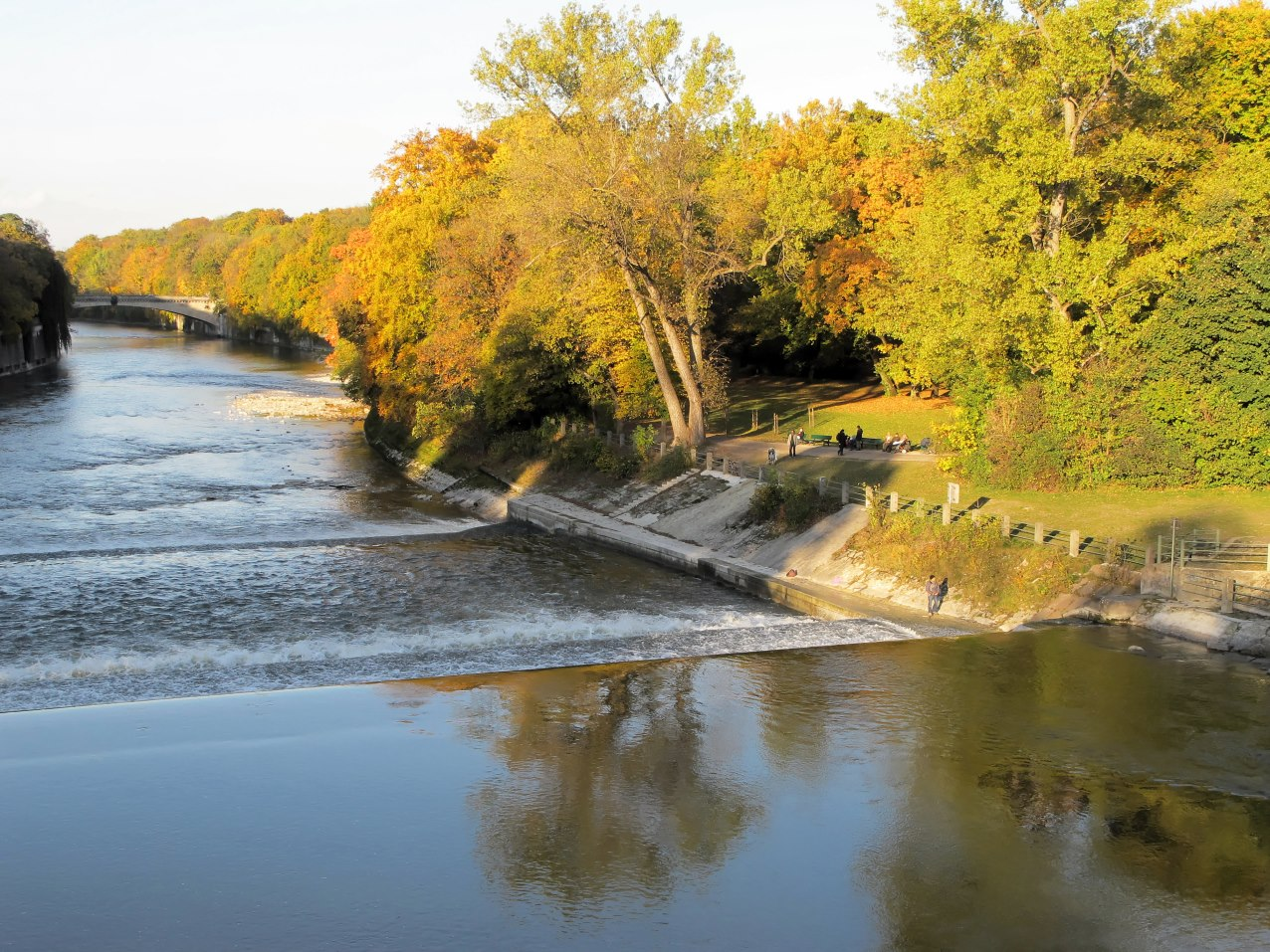 Munich,suburb Bogenhausen, Park Maximiliansanlagen